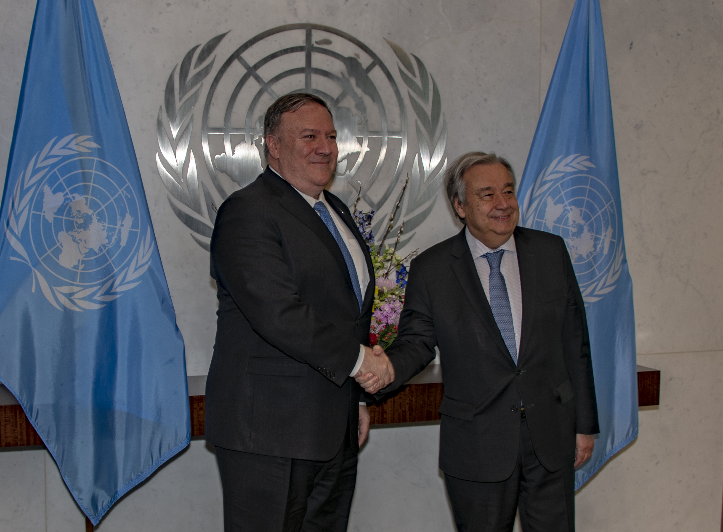 U.S. Secretary of State Michael R. Pompeo meets with Secretary General of the United Nations António Guterres in New York City, New York on February 21, 2019. [State Department photo by Ron Przysucha/ Public Domain]